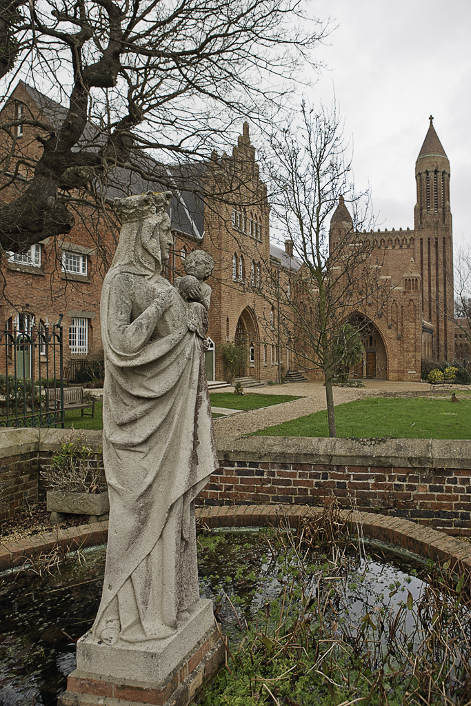 Quarr Abbey Iow